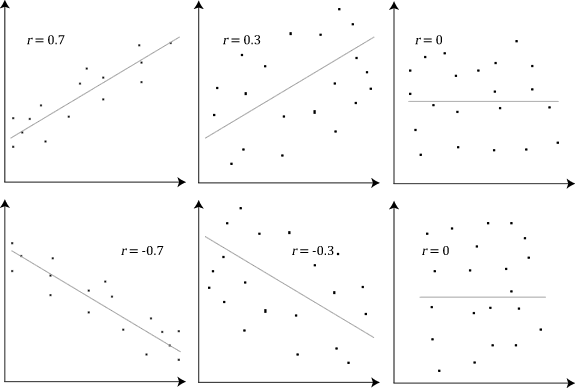 A visual representation of an example scatterplot of a variety of correlation coefficient values.